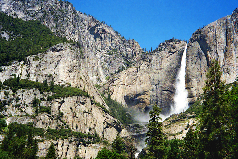 Yosemite National Park, California, USA, Yosemite Falls, June 1998 - an El Niño year.